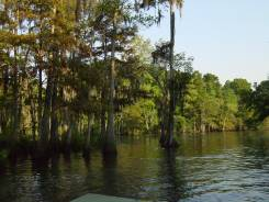 The Sabine River just below I-10. Photo : Steve Buser